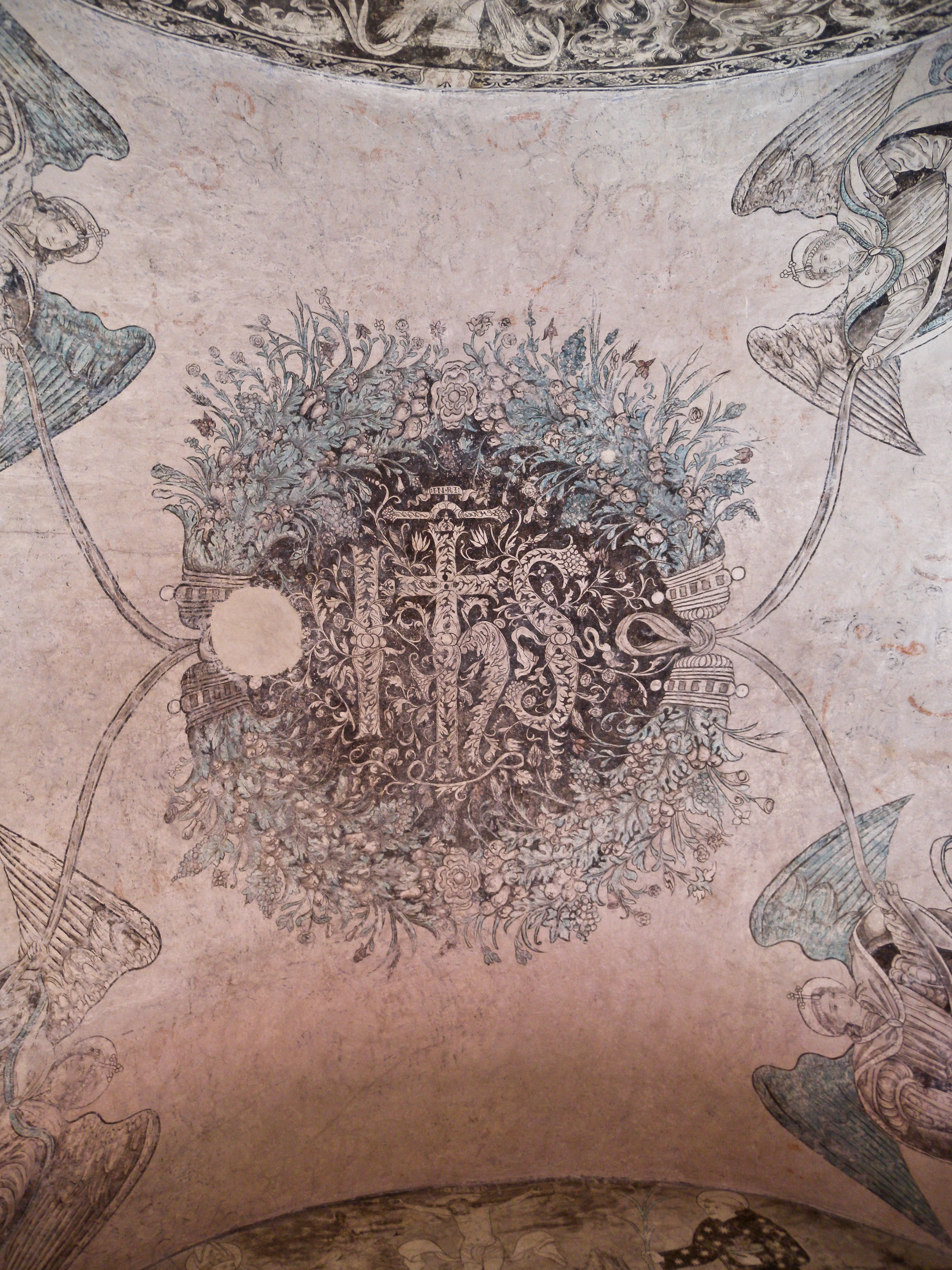 Actopan, Hidalgo. México